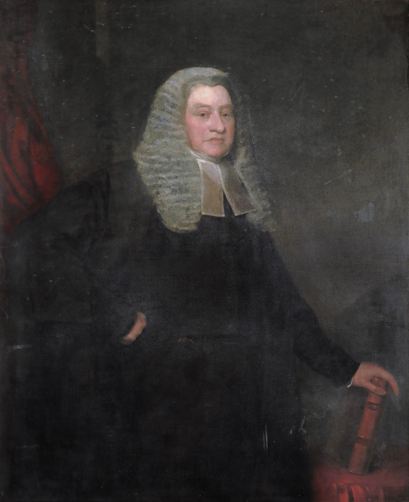 Samuel George William Archibald of Nova Scotia oil on canvas 143 x 112 cm